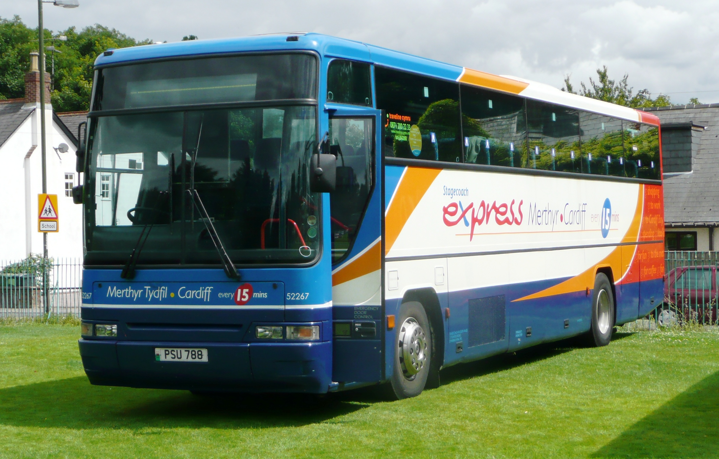 A Volvo/Plaxton coach operated by Stagecoach Wales on the express service between Merthyr Tydfil and Cardiff. It is seen at the 2008 Alton Bus Rally.